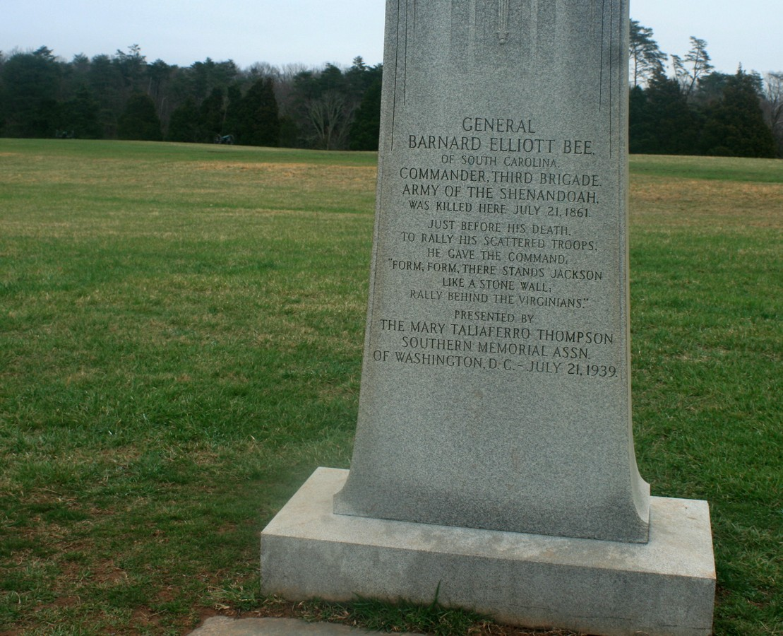 General Bernard Bee was killed here